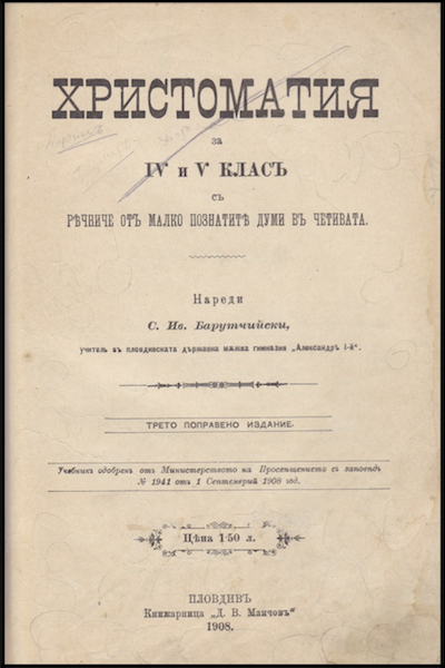 Serafim Barutchiyski Textbook